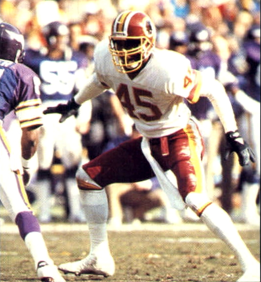 Washington Redskins cornerback Barry Wilburn defending an opponent of the Minnesota Vikings during the 1987-88 NFC Championship Game